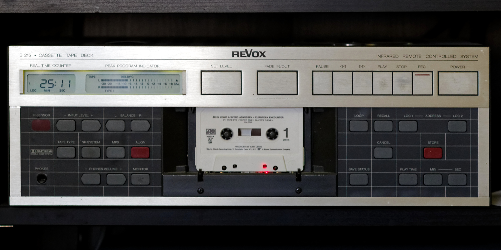 Revox B-215 cassette deck. Made in 1986, overhauled throughout in 2015, works like a clock, built like a tank.